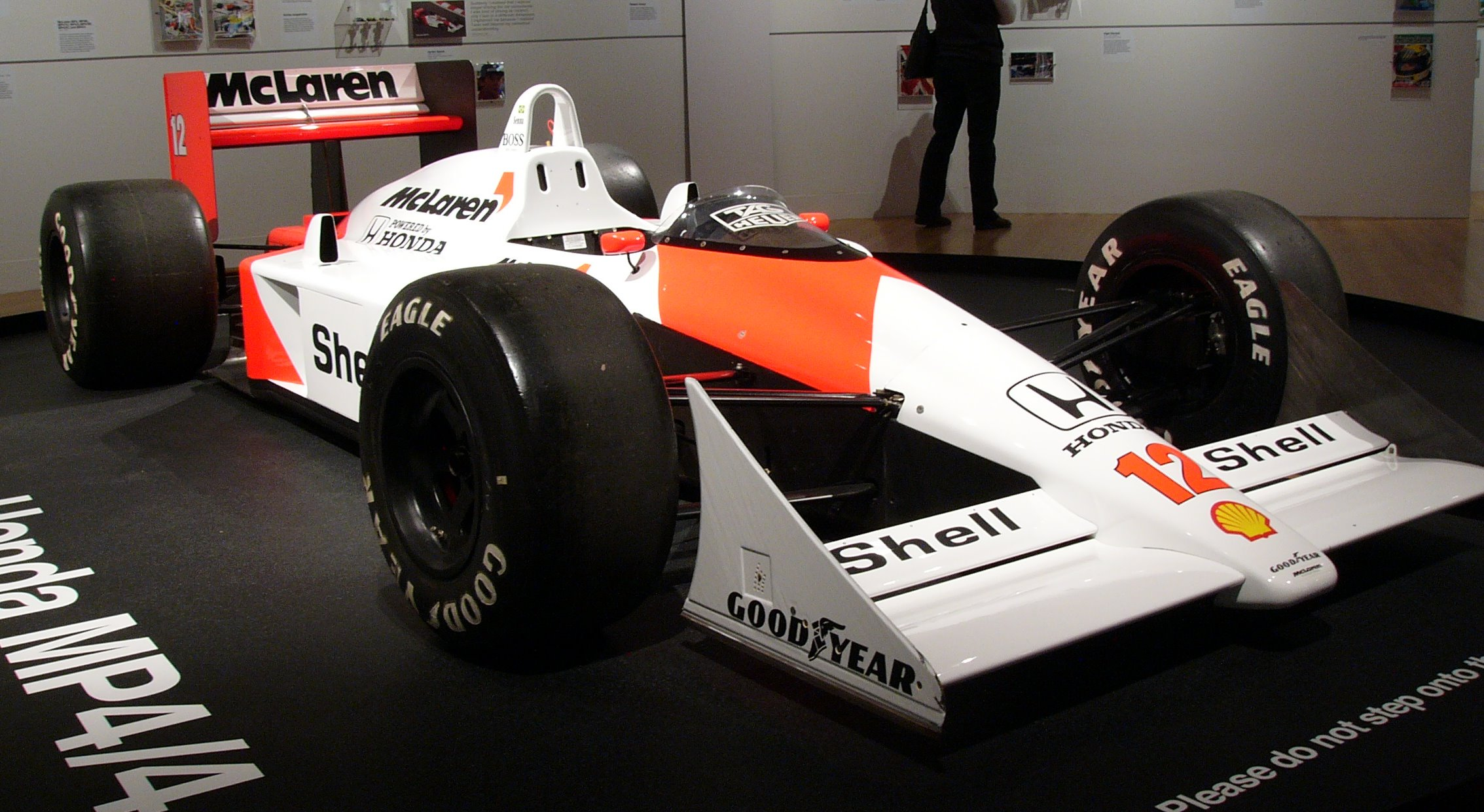 Photos taken at TePapa, Museum of New Zealand, Wellington